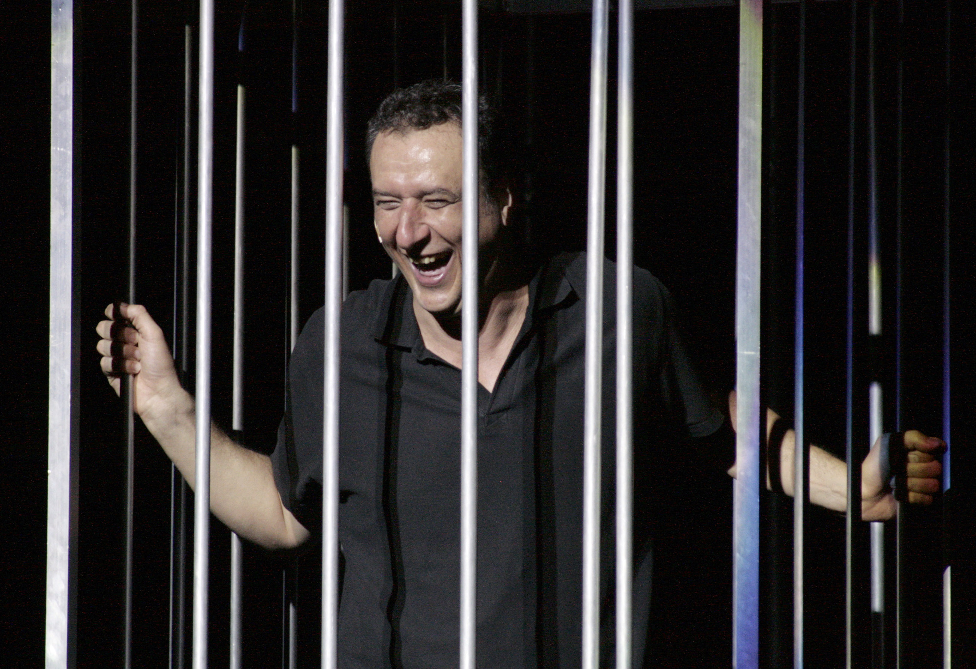 Tamás Borovics as Knife Maxi role / The Threepenny Opera - 2015 Bekescsabai Jokai Szinhaz / Hungary